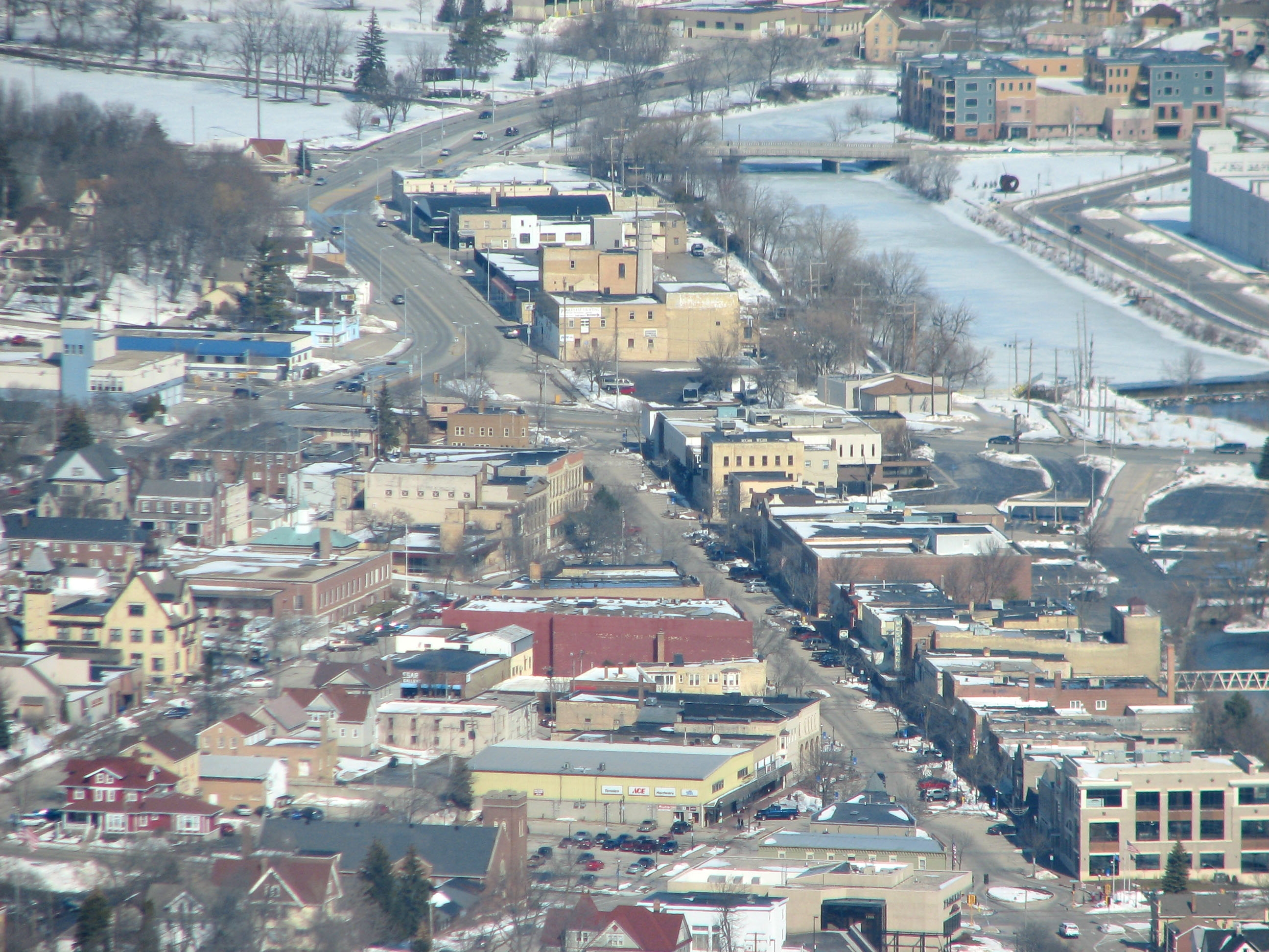 Copyright 2007 Michael j Richter. View of downtown West Bend, Wisconsin. Aerial photo taken on 11 March 2007 from about 2000 feet above sea level looking north.